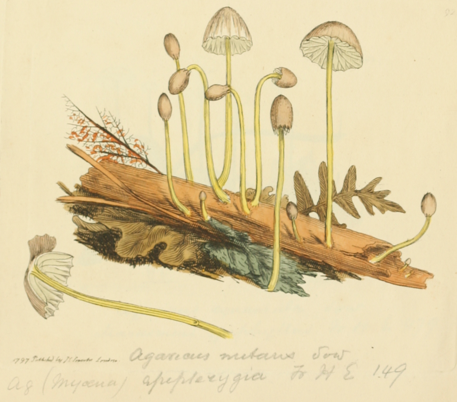 This is a plate from James Sowerby's Coloured Figures of English Fungi or Mushrooms.